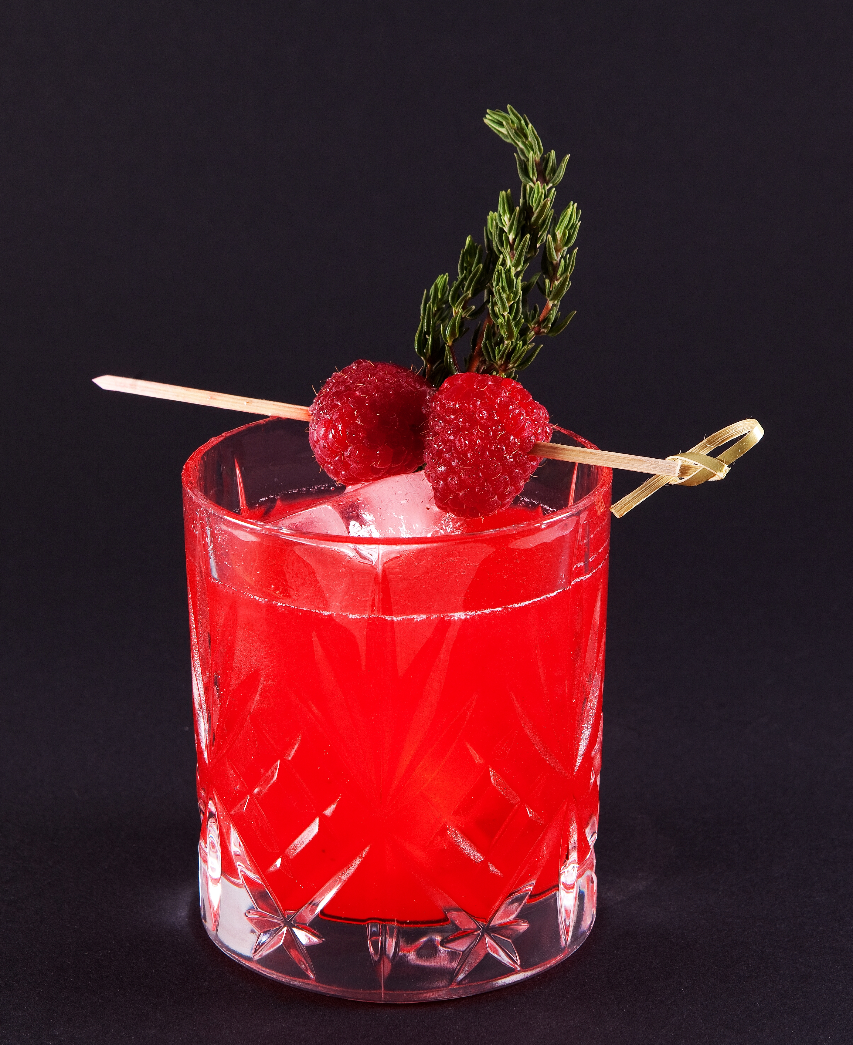 Raspberry Thyme Smash, a cocktail, decorated with raspberries and a thyme sprig.